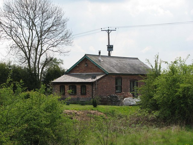 Waltham-on-the-Wolds Railway Station Waltham-on-the-Wolds Station (built by the Great Northern Railway) never had a regular passenger service; the line from Scalford was principally an iron ore carrier, serving the quarries around Eaton. Special trains, carrying people and horses, were run for the horse races at Croxton Park before the Great War, but otherwise the only traffic at Waltham was in coal and agricultural supplies. The station remained intact until the early 1960s. The goods store, which stood on the main platform, is now a bungalow, seen here from the yard approach road.